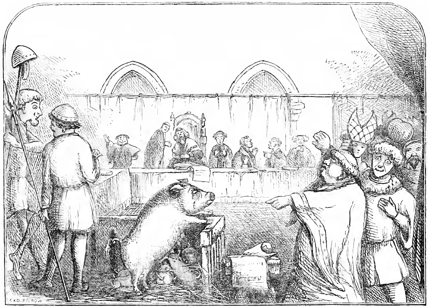 "Trial of a sow and pigs at Lavegny". According to the book, “Among trials of individual animals for special acts of turpitude, one of the most amusing was that of a sow and her six young ones, at Lavegny, in 1457, on a charge of their having murdered and partly eaten a child. … The sow was found guilty and condemned to death; but the pigs were acquitted on account of their youth, the bad example of their mother, and the absence of direct proof as to their having been concerned in the eating of the child.”